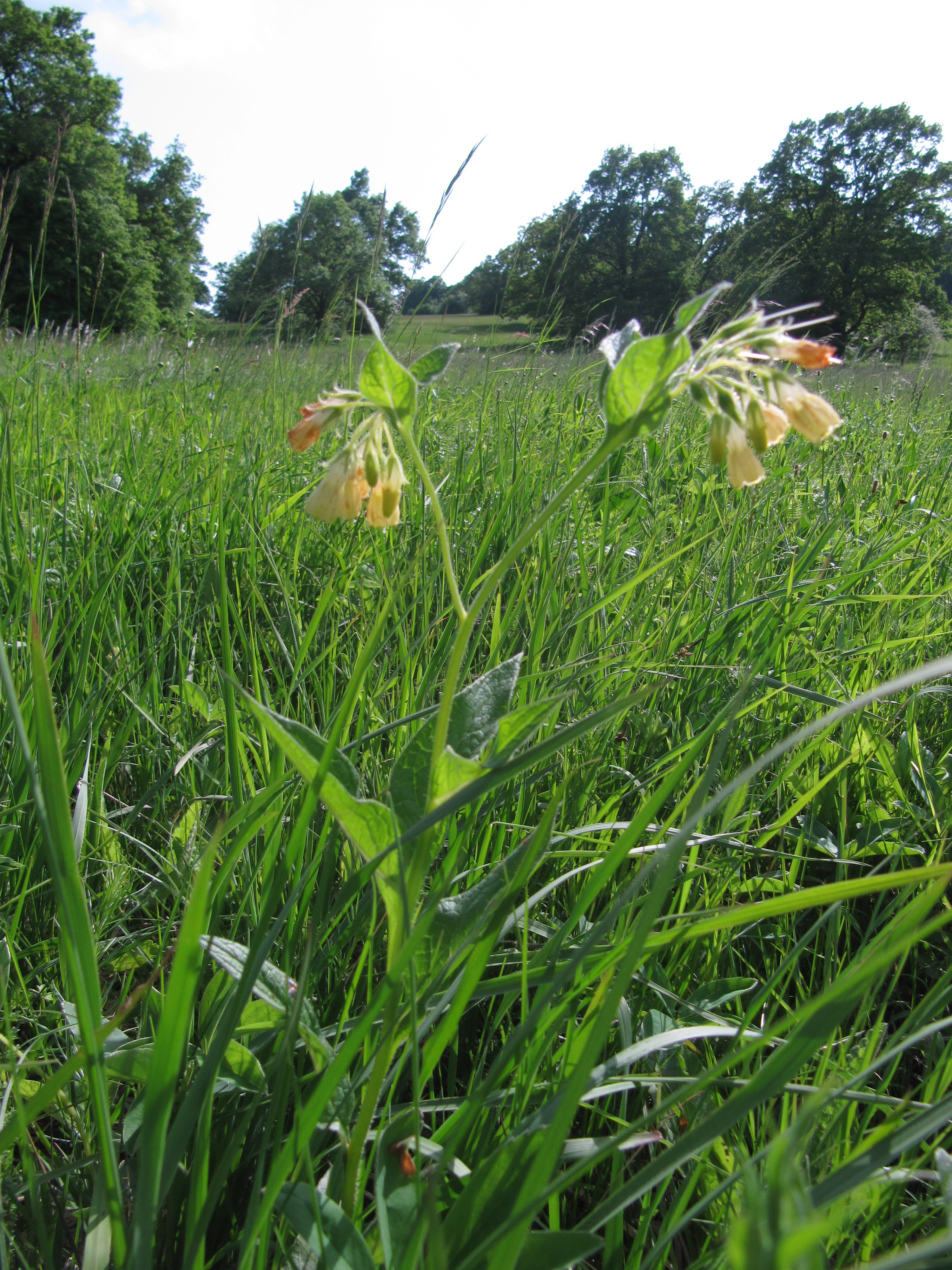 National nature reserve Čertoryje, Czech Republic.